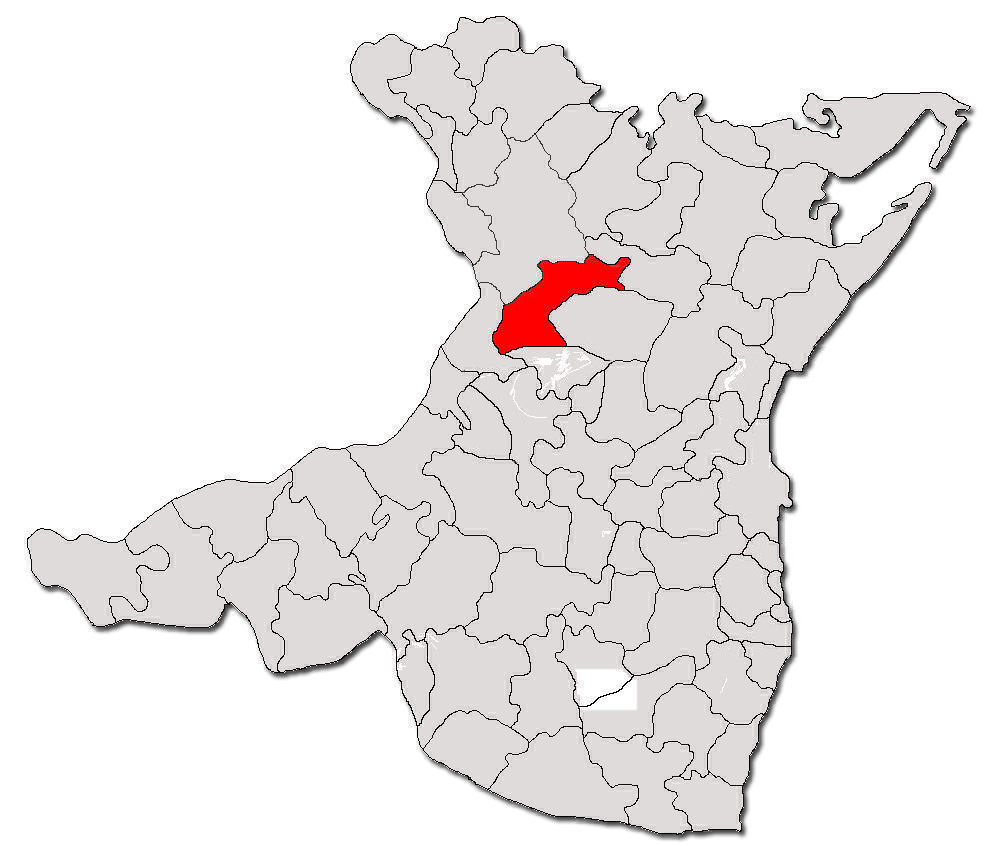 Countour map of Silistea commune